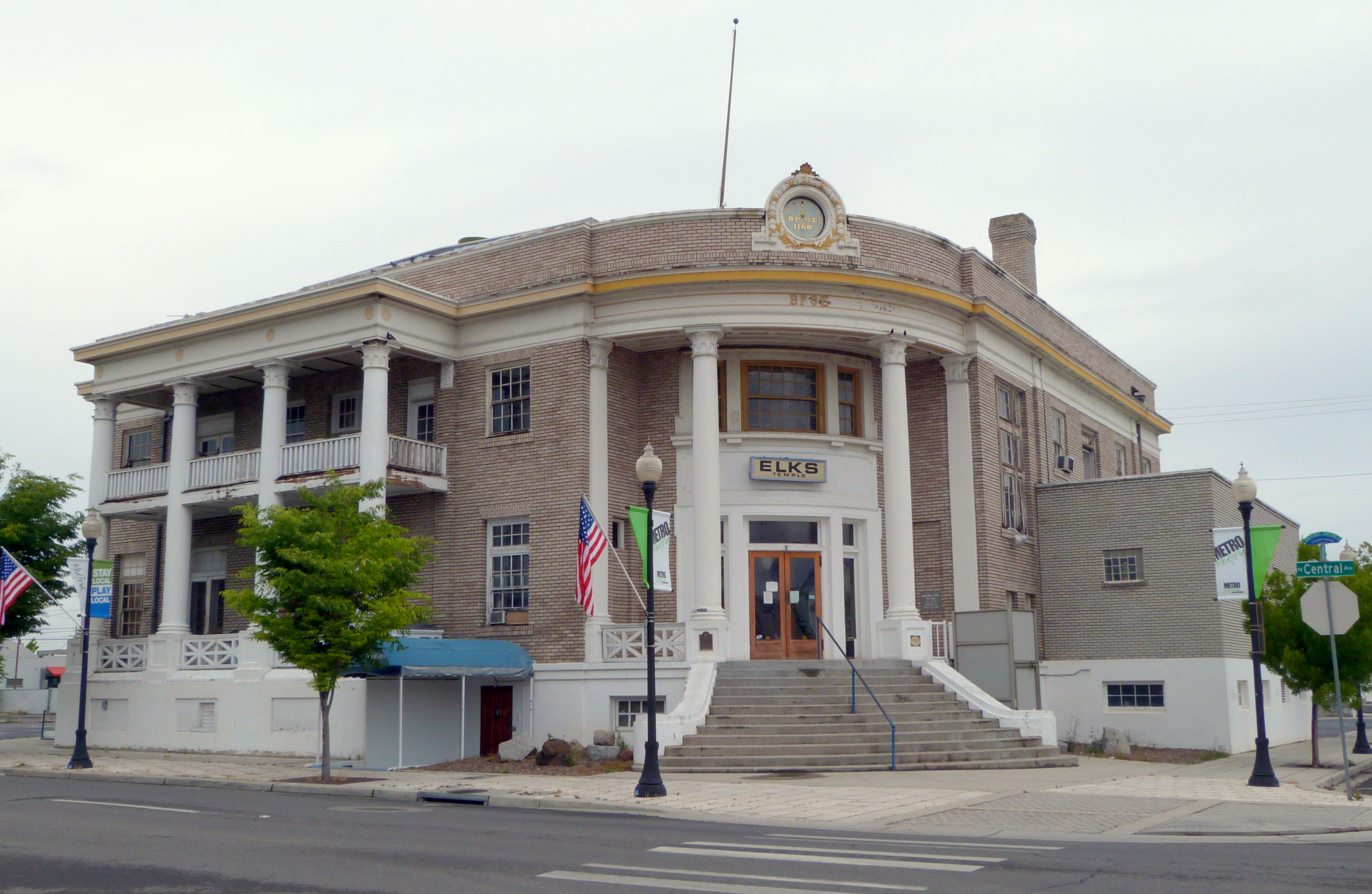 The historic BPOE Lodge No. 1168 (built 1915), located at 200 North Central Avenue in Medford, Oregon, United States, is listed on the US National Register of Historic Places. It is additionally listed as a contributing resource in the Medford Downtown Historic District, which is also listed on the National Register.